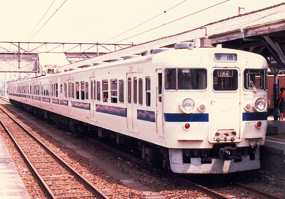 A mixed 401 and 403 series EMU